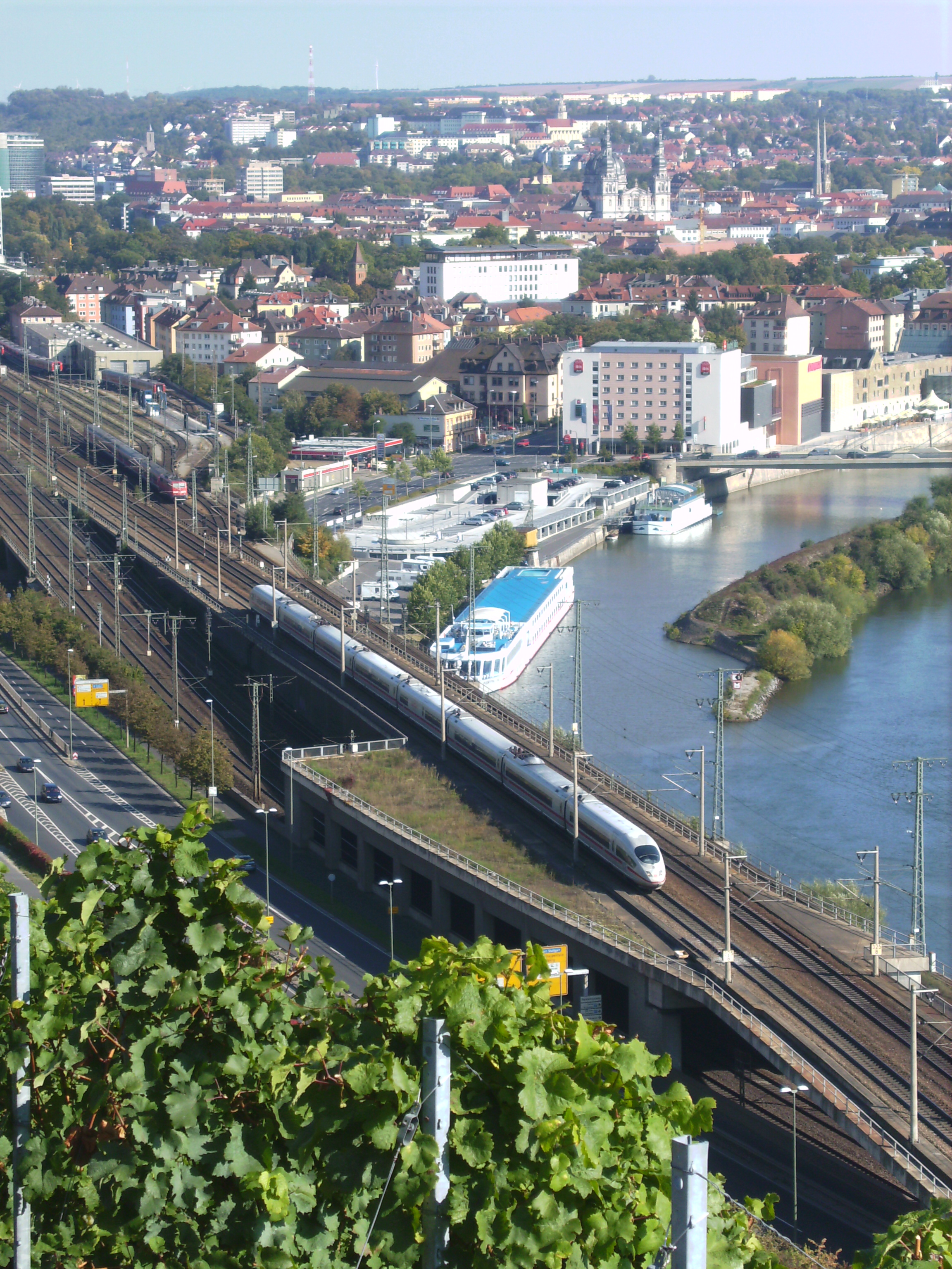 An ICE 3 train leaves Würzburg main station for the high-speed track to Hannover, on a ramp